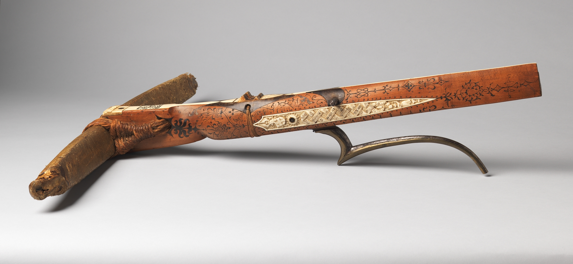 German, probably Stuttgart; Crossbow; Archery Equipment-Crossbows